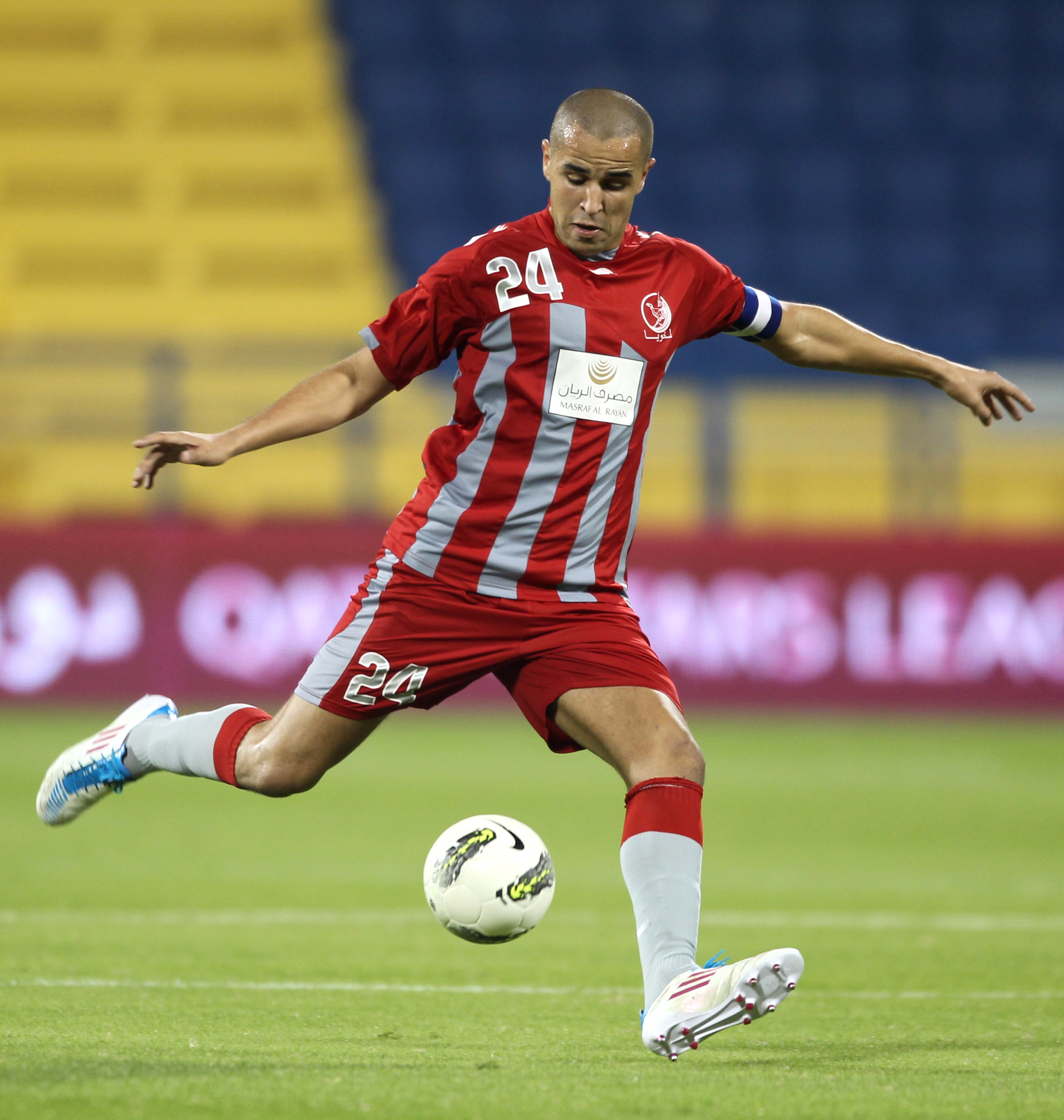 Lekhwiya's Algerian professional Madjid Bougherra prepares to hit a ball during the Qatar Stars League match.